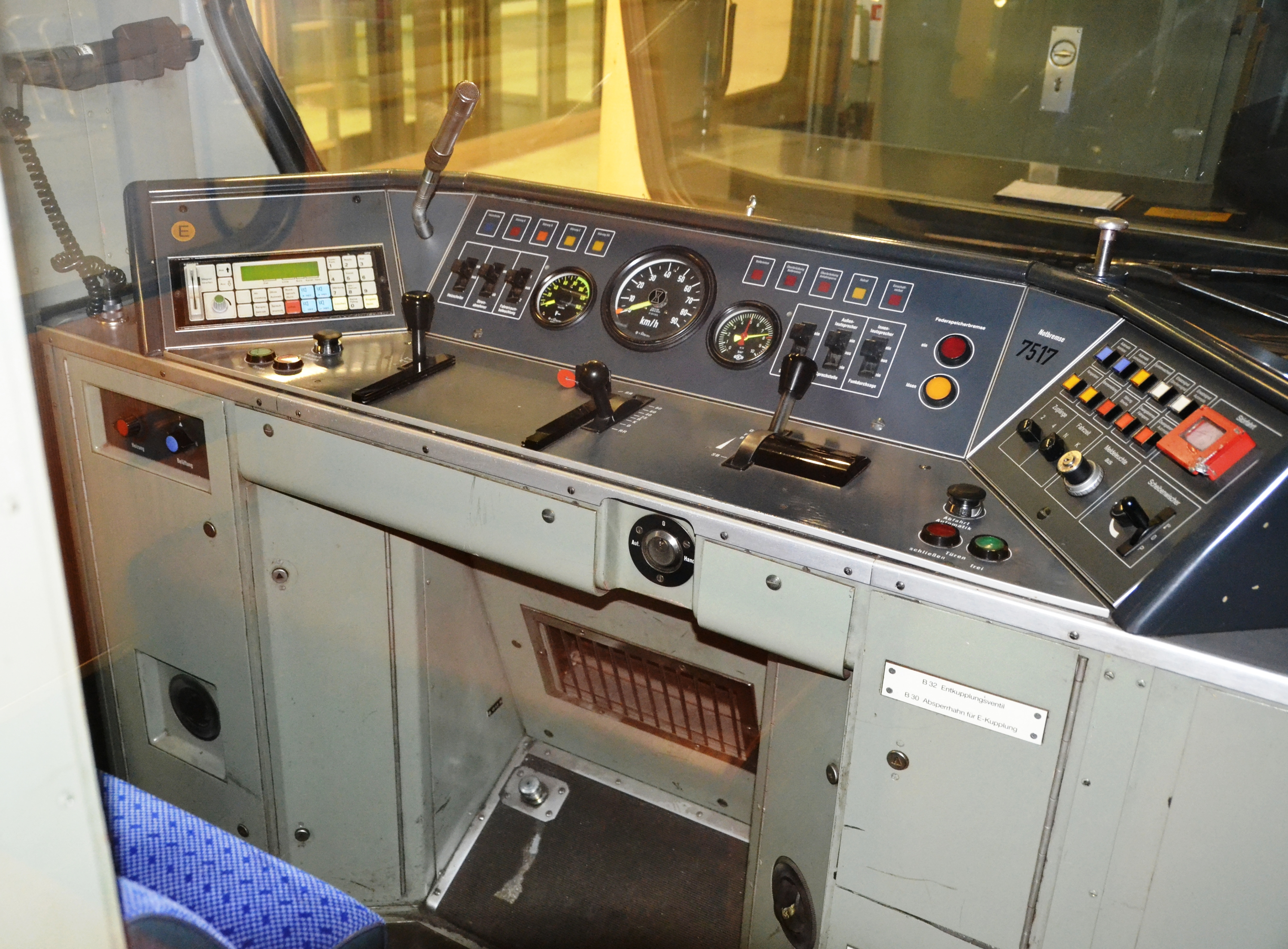 MVG B cockpit.